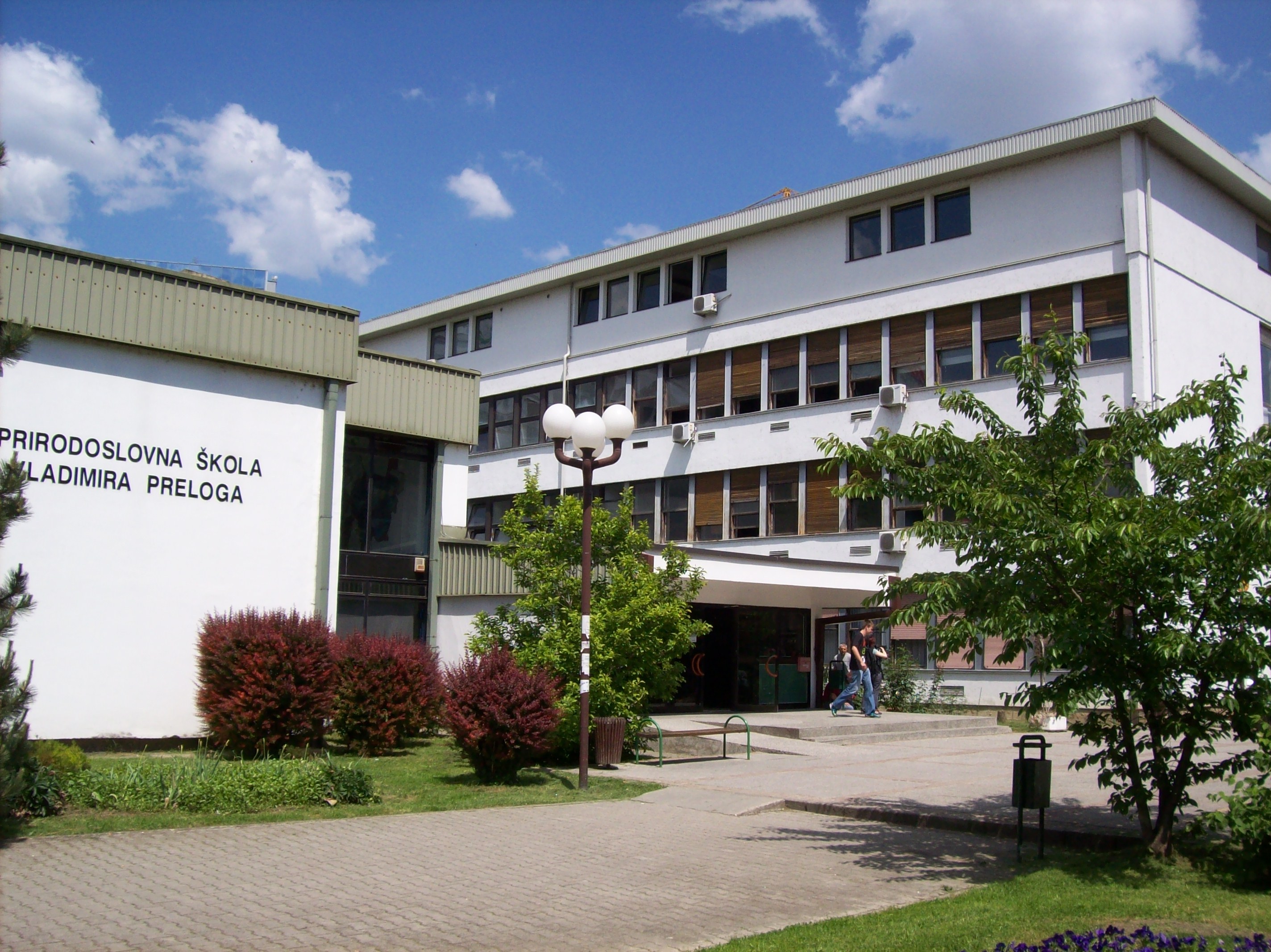 Picture of the Prirodoslovna skola Vladimira Preloga, Zagreb - Croatia, entrance